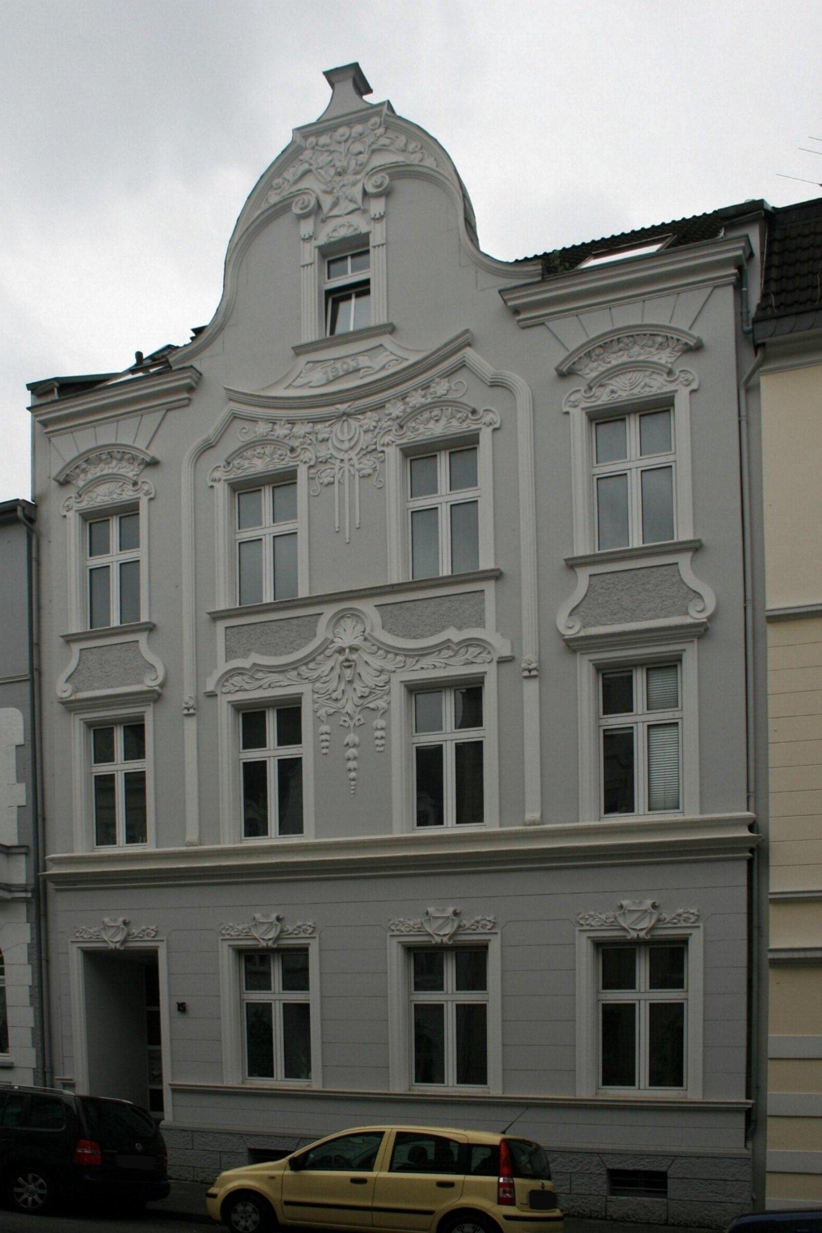 Cultural heritage monument No. H 026 in Mönchengladbach